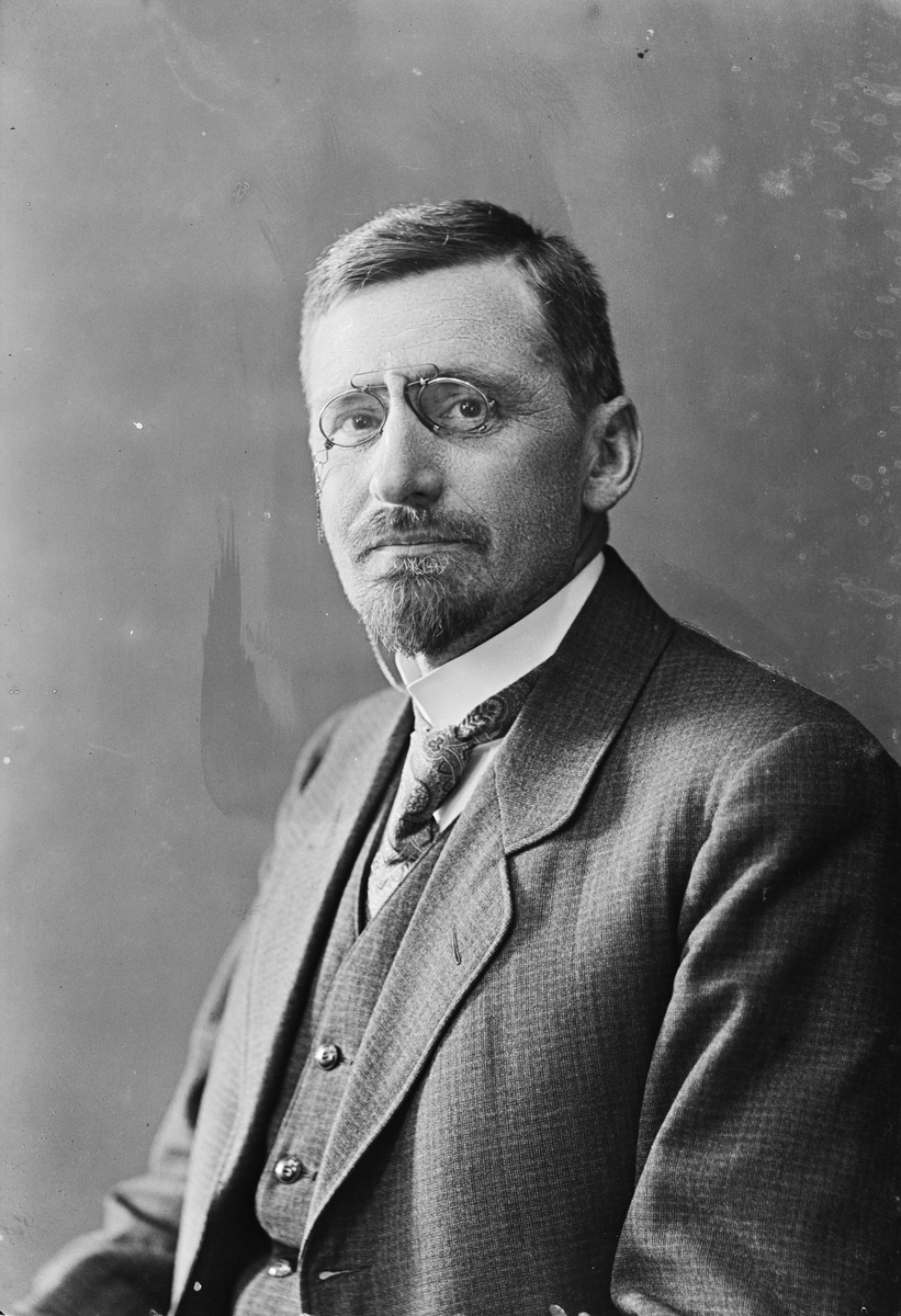 Norwegian civil engineer Ernst Wilhelm Bjerknes